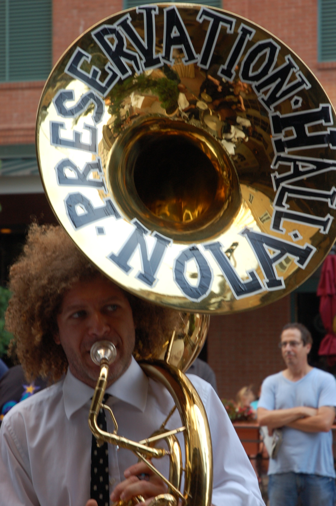 Ben Jaffe of the Preservation Hall Jazz Band playing bass horn, New Orleans.